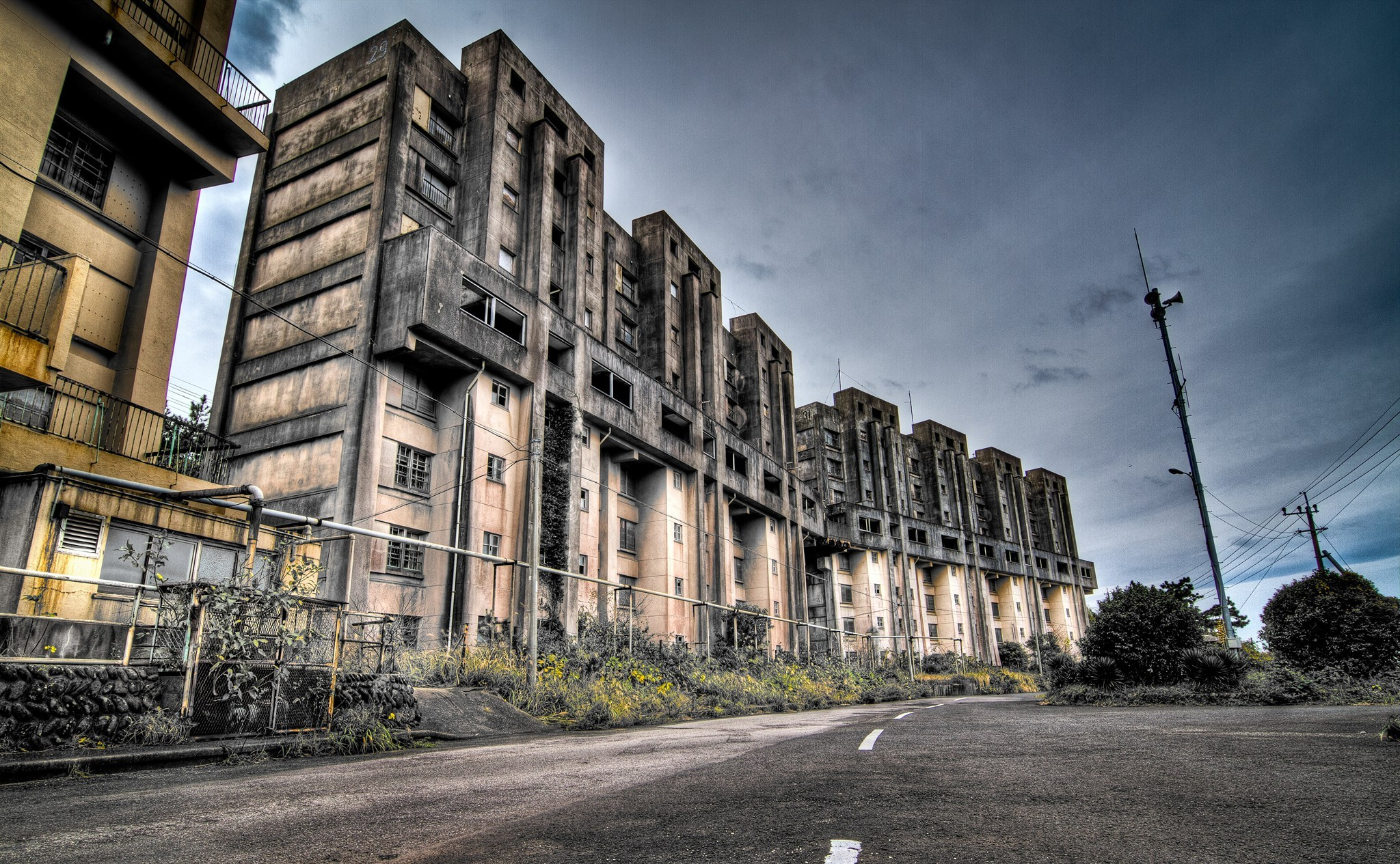 Apartments on Ikeshima.